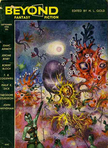 Cover, Beyond Fantasy Fiction, September 1953